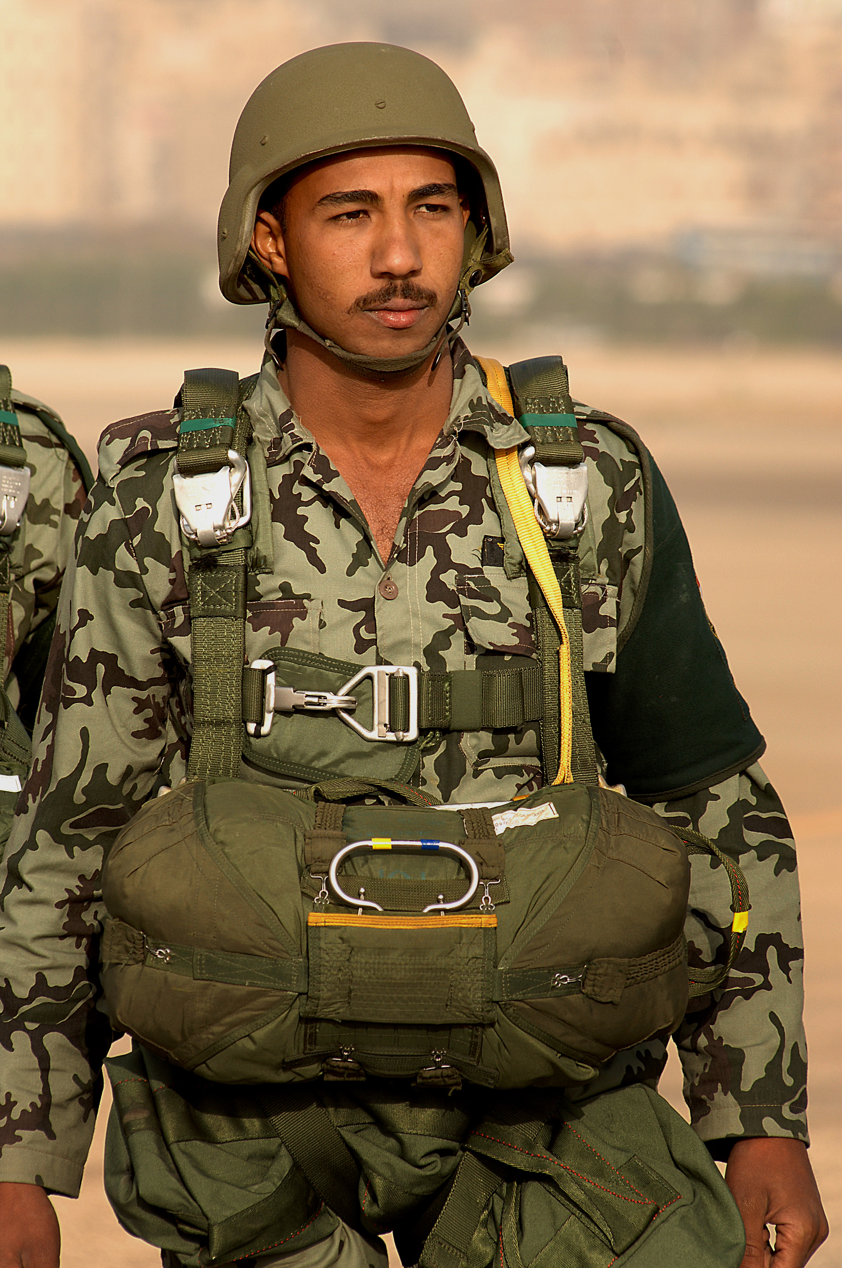 An Egyptian paratrooper prepares to load on a U.S. Air Force C-17 aircraft in Egypt for an air drop into Cairo, Egypt, Nov. 10, 2007, as part of exercise Bright Star 2007. Bright Star is a joint/combined command post and tactical field exercise designed to improve readiness and interoperability between U.S., Egyptian and other coalition forces. (U.S Air Force photo by Staff. Sgt. Aaron Allmon) (Released) VIRIN: 071110-F-7823A-310